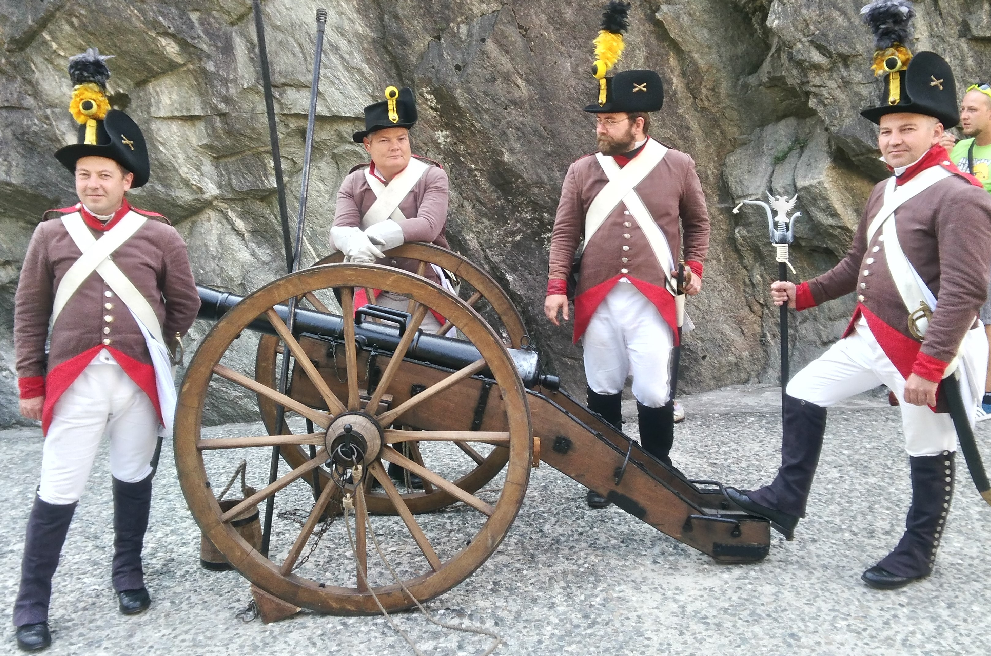 Hungarian extras and cannon behind the scenes of the film "Non è mai Passato" in Aosta Valley